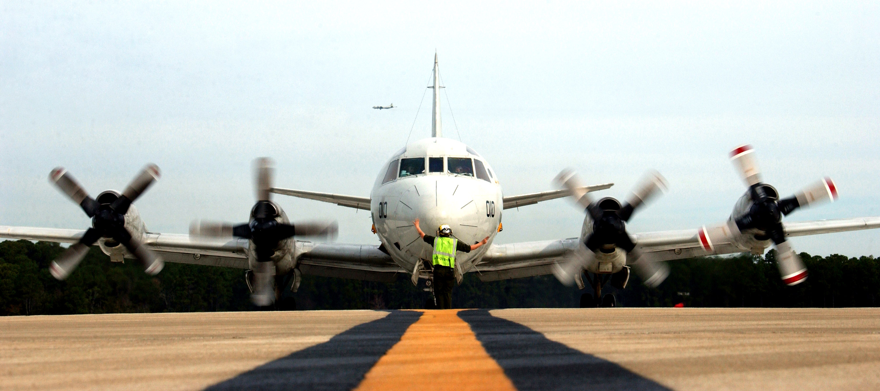 Jacksonville, Fla. (Feb. 13, 2007) - Airman Jesse Baron assigned to “Pro's Nest” of Patrol Squadron Three Zero (VP-30) signals to the crew of a P-3C Orion during start-up checks. VP-30 is the U.S. Navy's Maritime Patrol Fleet Replacement Squadron whose mission is to provide aircraft-specific training for pilots, naval flight officers, and enlisted aircrew men prior to reporting to the fleet. U.S. Navy photo by Mass Communication Specialist 2nd Class Lynn Friant (RELEASED)